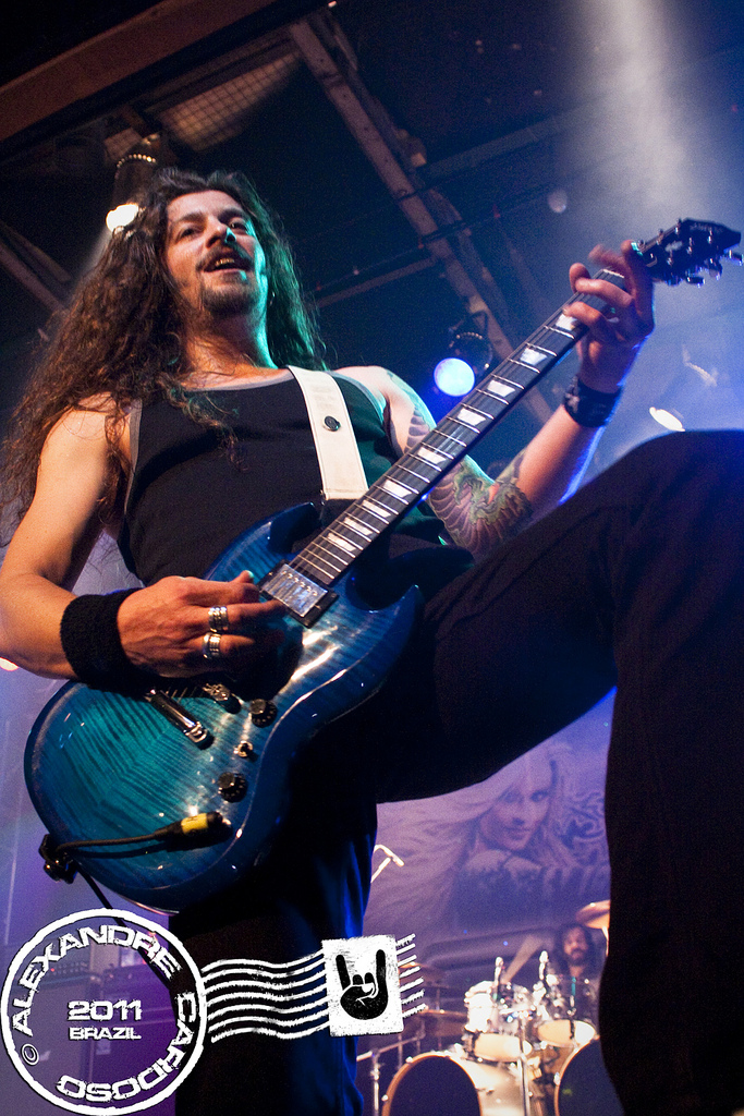 Dutch guitarist Bas Maas playing with Doro at Carioca Club, São Paulo, Brazil on 24/04/2011